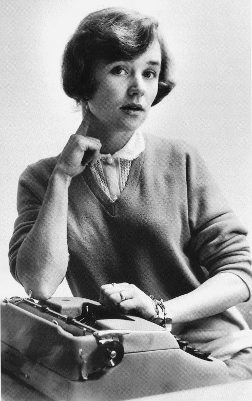 Photograph of the Finnish writer and journalist Sirkka Lassila (1929–2016).